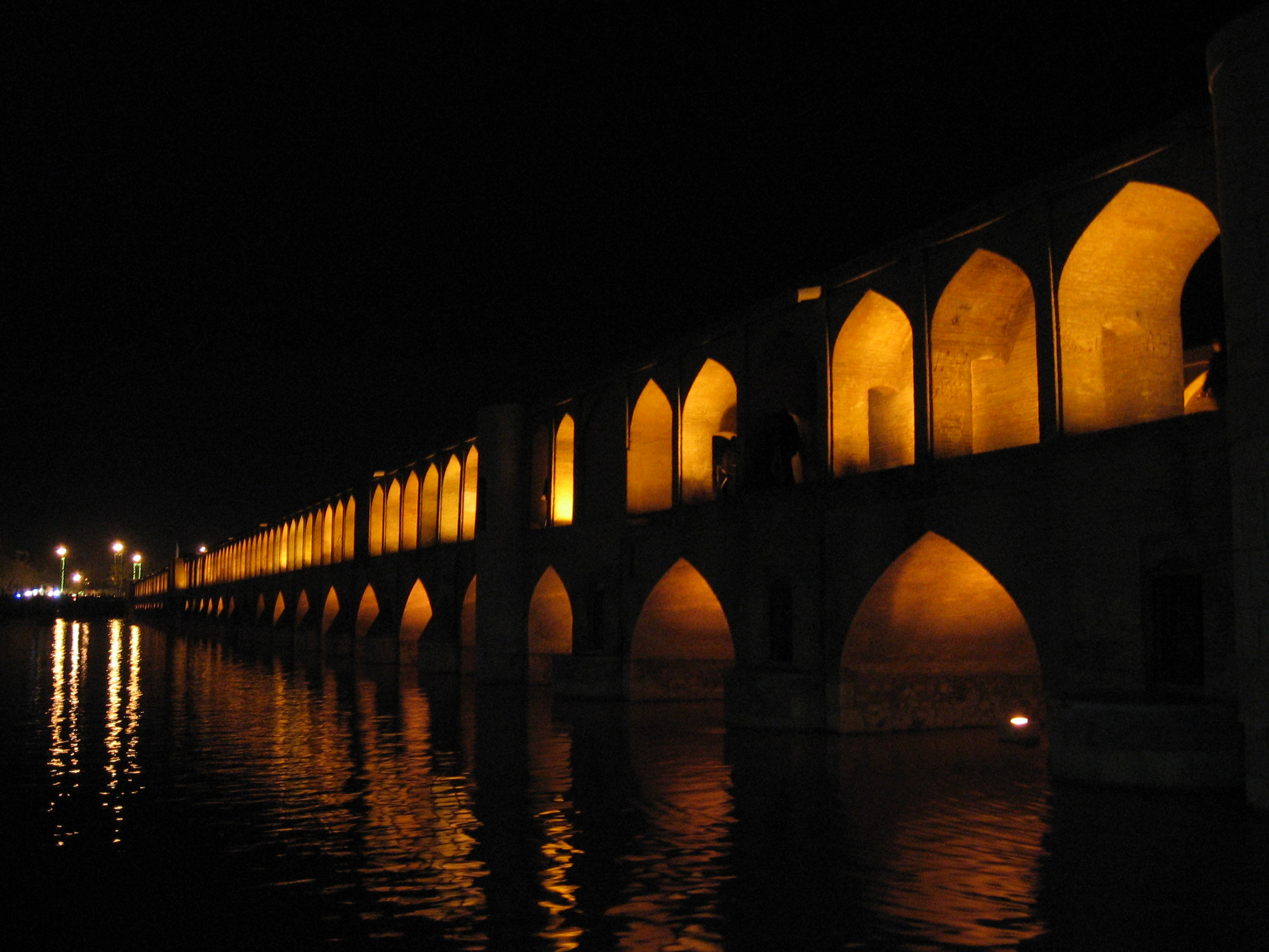 Allah Verdi Khaan bridge or the famous 33 Pol in Isfahan, Iran Photo taken by : Shervin Afshar, March 2006